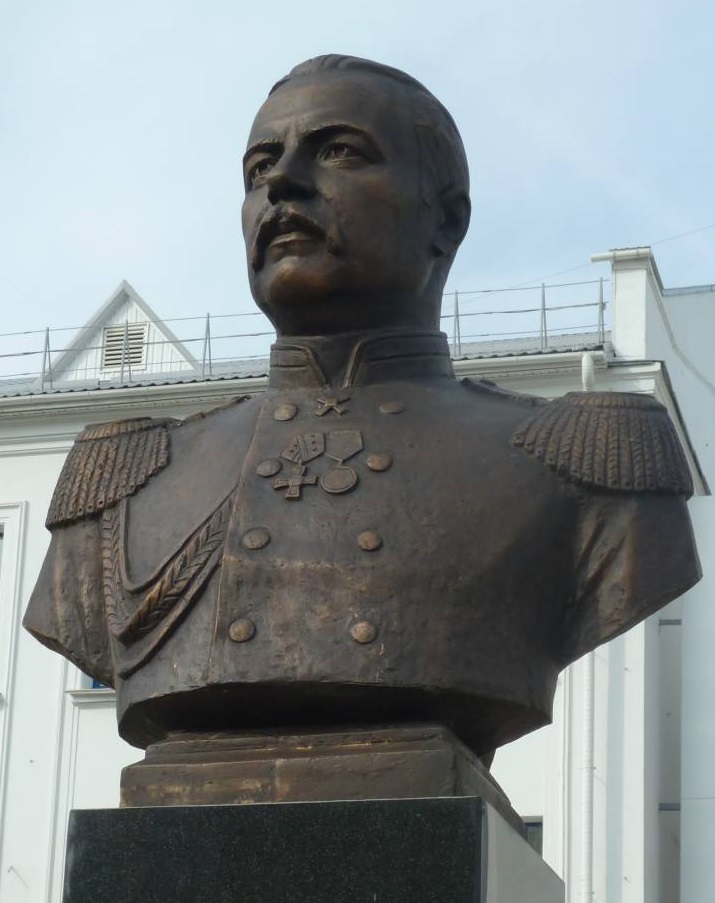 Pomnik Jana (Iwana) Keniga w Niżnym Nowogrodzie